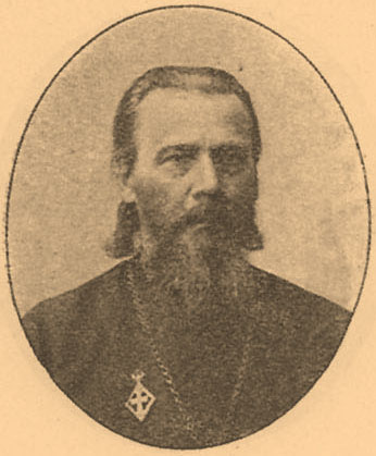 Illustration from Brockhaus and Efron Encyclopedic Dictionary (1890—1907)